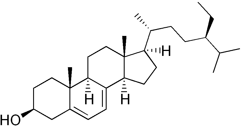 chemical structure of 7-dehydrositosterol